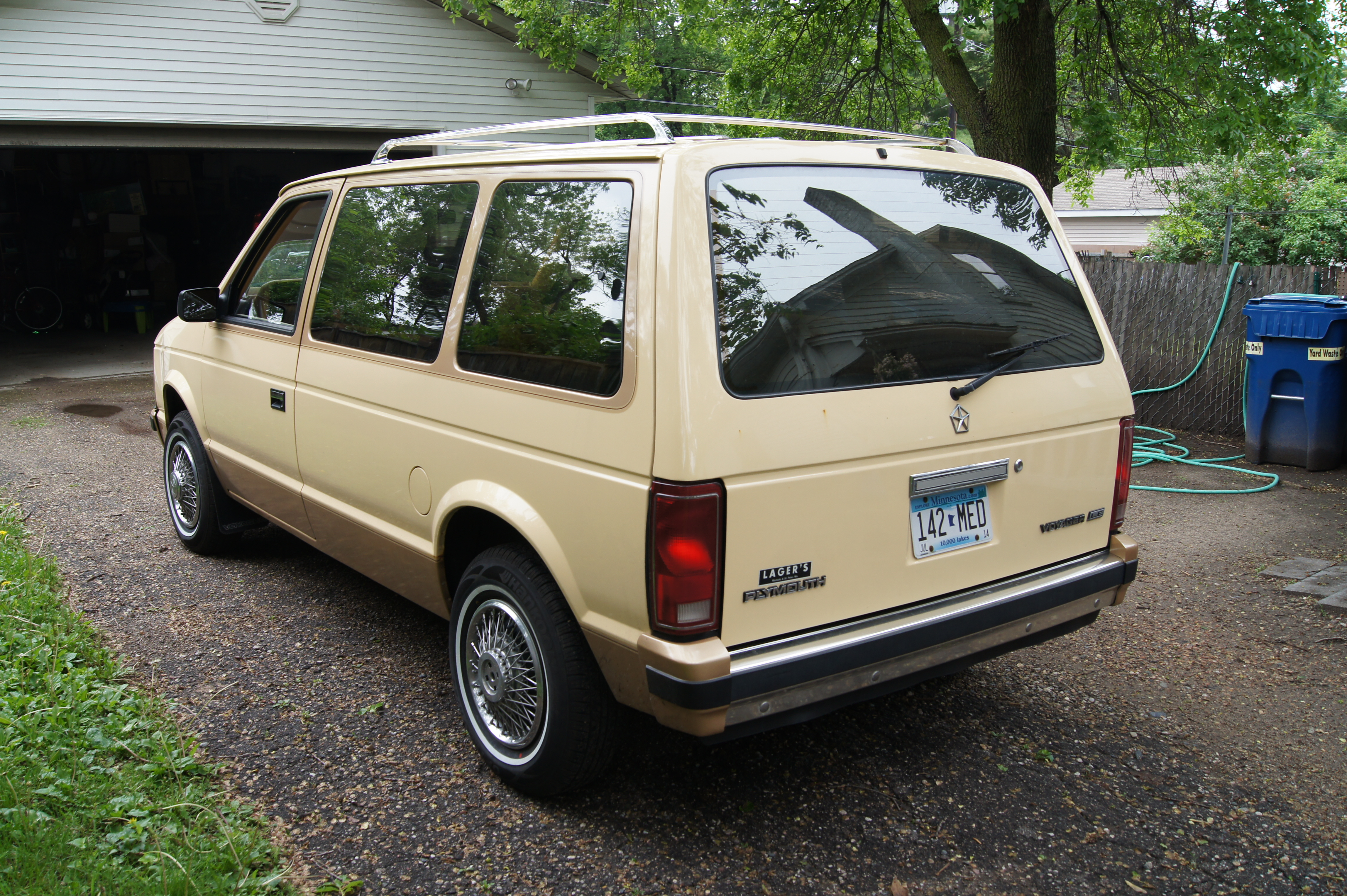 Thousands of car pictures at the link below